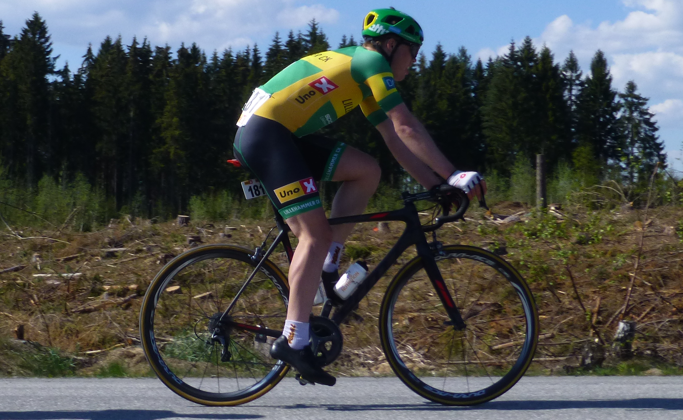 Rasmus Tiller (1996, NOR) at Ringerike Grand Prix 2016.